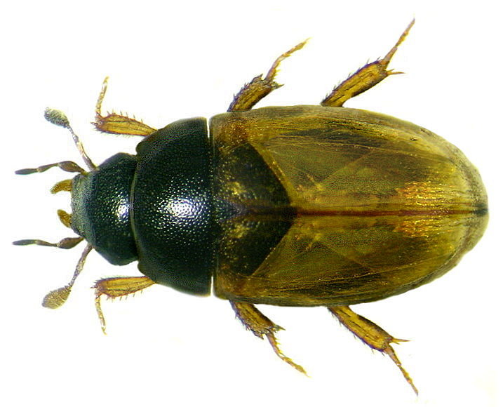 Cercyon quisquilius, a beetle in the family Hydrophilidae Familie: Hydrophilidae Groesse: 1,9-2,6 mm Verbreitung: Europa, sehr häufig Ökologie: im Mist Fundort: Germania, Bayern, Oberfranken, Selbitz leg.det. U.Schmidt, 2001 Foto: U.Schmidt, 2005